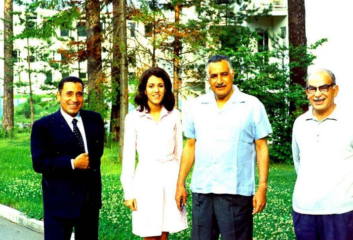 Journalist Mohammed Hassanein Heikal (first left), Egyptian President Gamal Abdel Nasser (third from left) and daughter Hoda Abdel Nasser (second from right